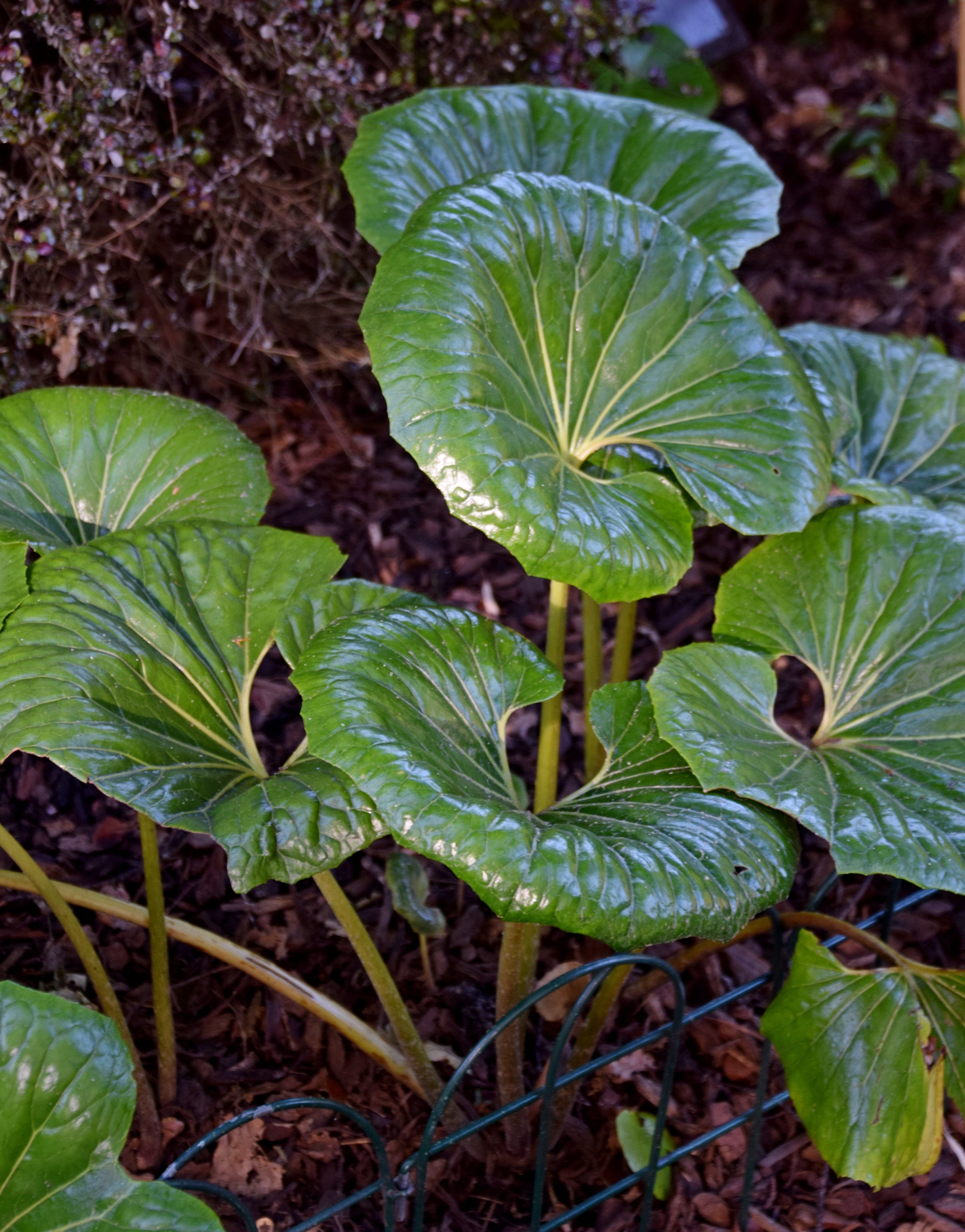 Cremanthodium reniforme in Dunedin Botanic Garden, Dunedin, New Zealand